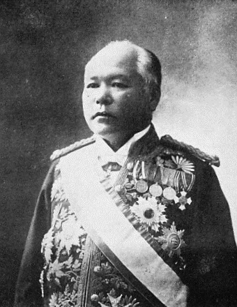 Keizo Kagawa